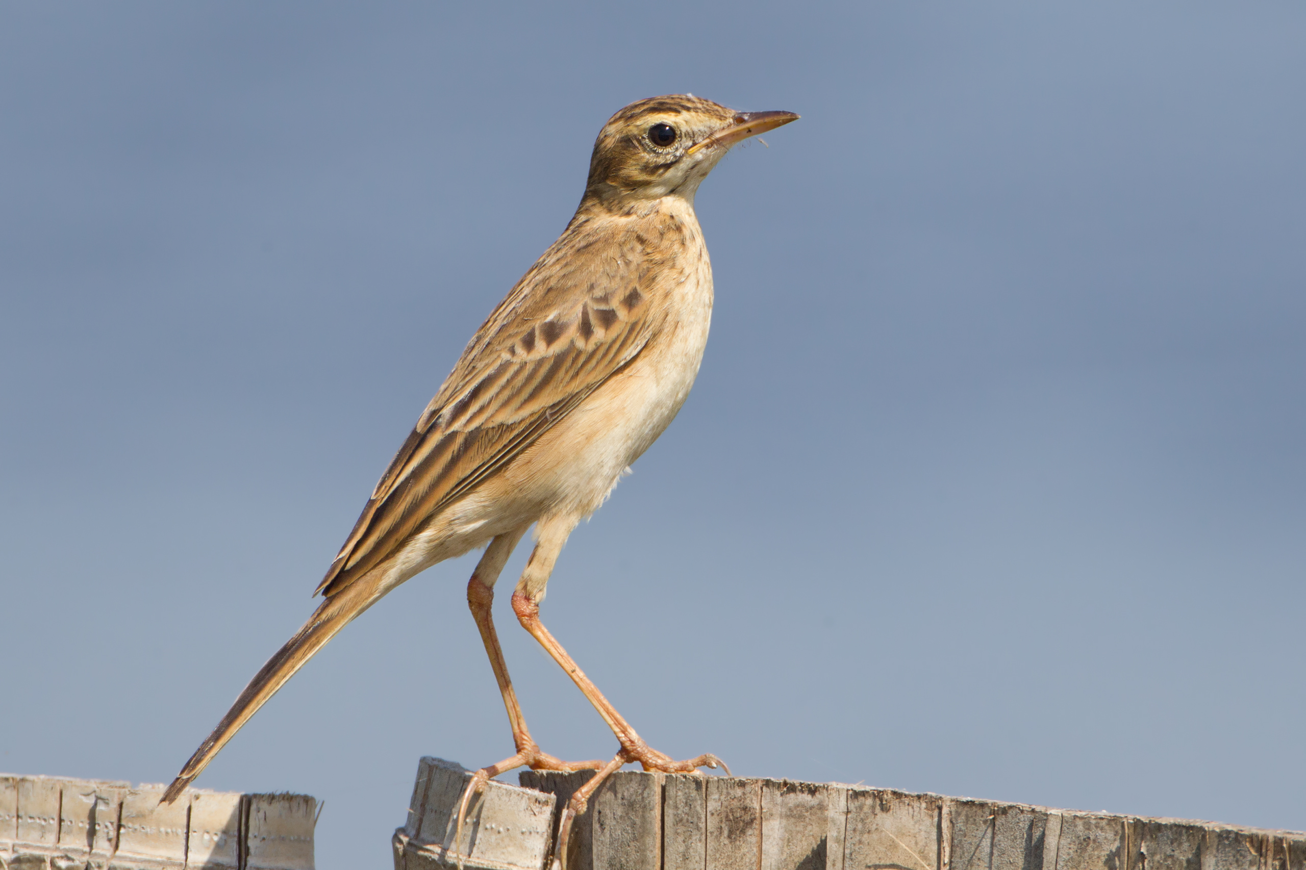 Richard's Pipit (Anthus richardi), Laem Pak Bia, Petchaburi, Thailand